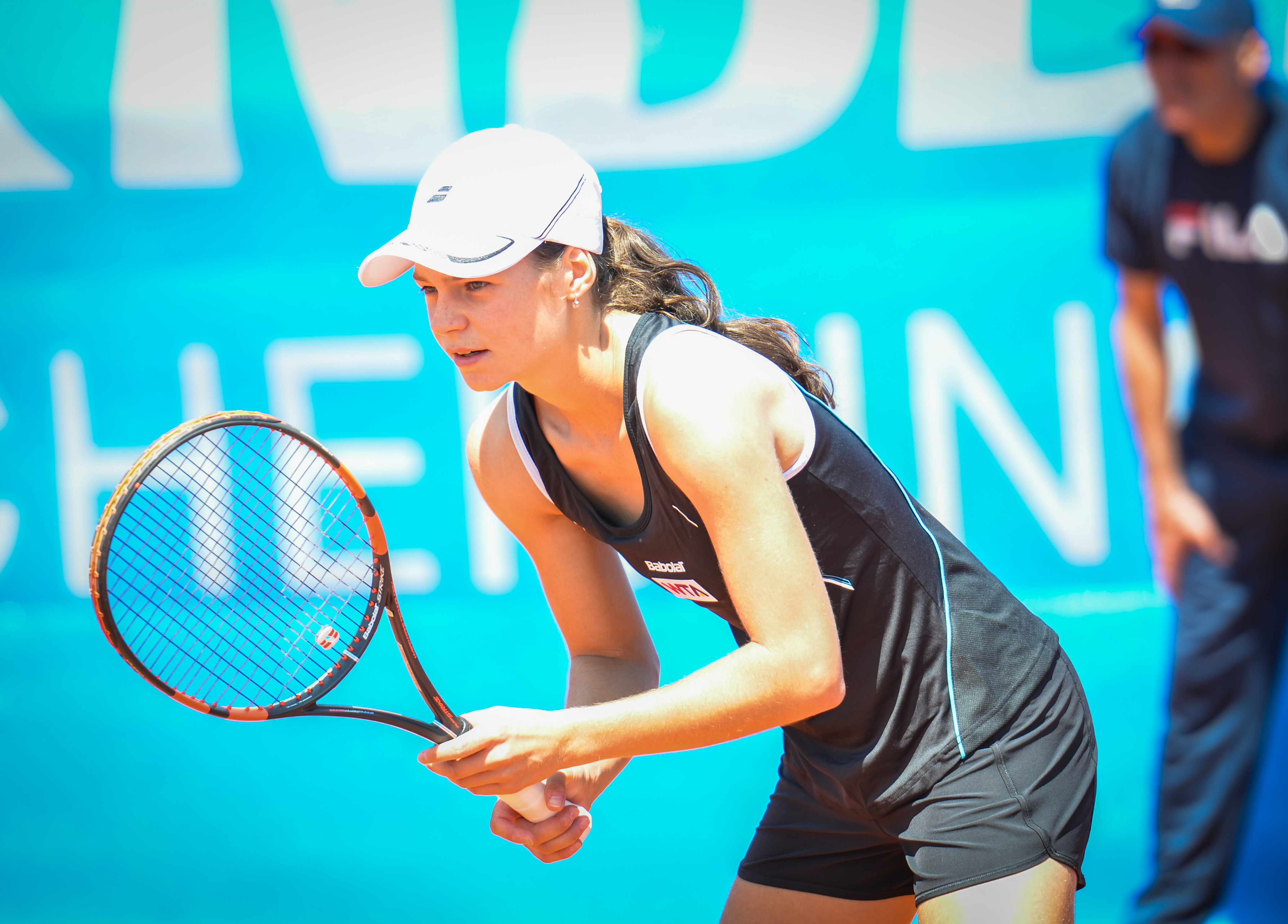 Ilona Kremen during her 1st round doubles match with Ana Vrljić against Raluca Olaru and Shahar Pe'er at the 2014 Nürnberger Versicherungscup on May 20, 2014 Ilona Kremen preparing to return